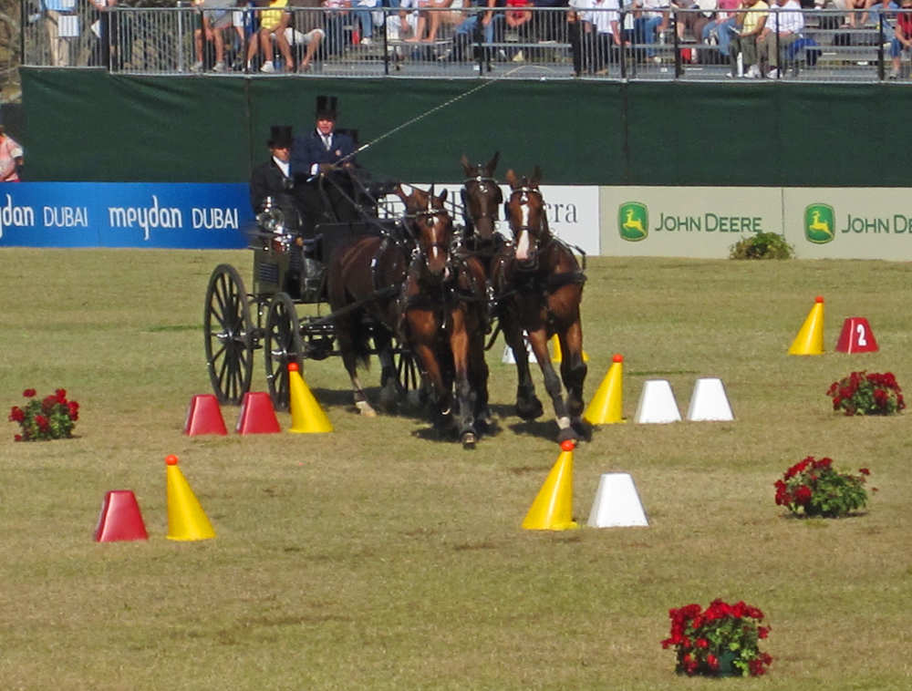 World Equestrian Games Dressage Driving in 2010